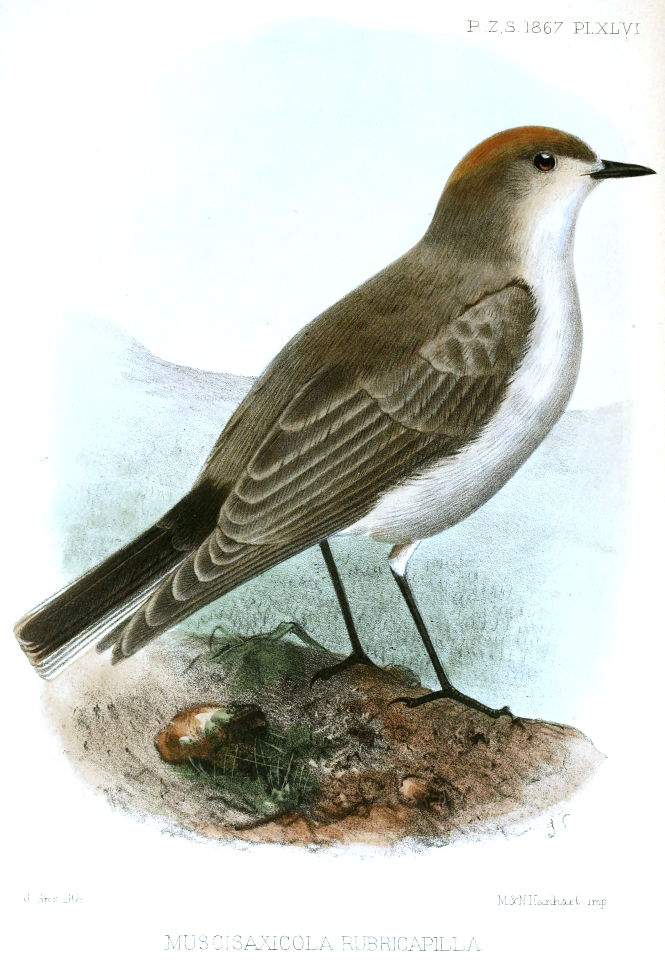 Rufous-naped Ground-tyrant, adult